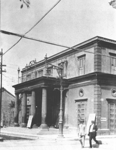 A photograph of the Teatro Baralt in its original form (1883-1928)